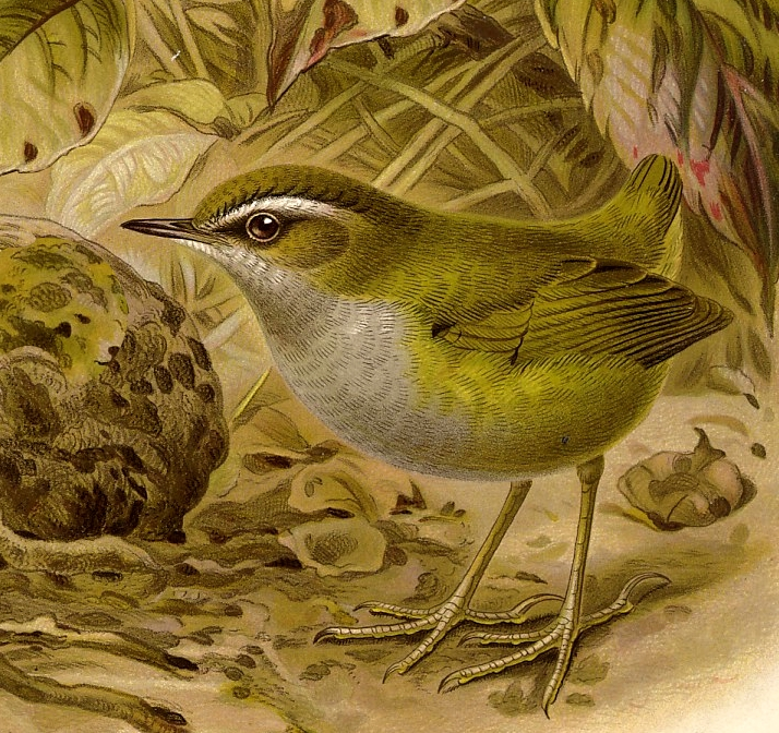 Xenicus longipes, Mātuhituhi, Bush Wren. Endemic to New Zealand, now extinct.